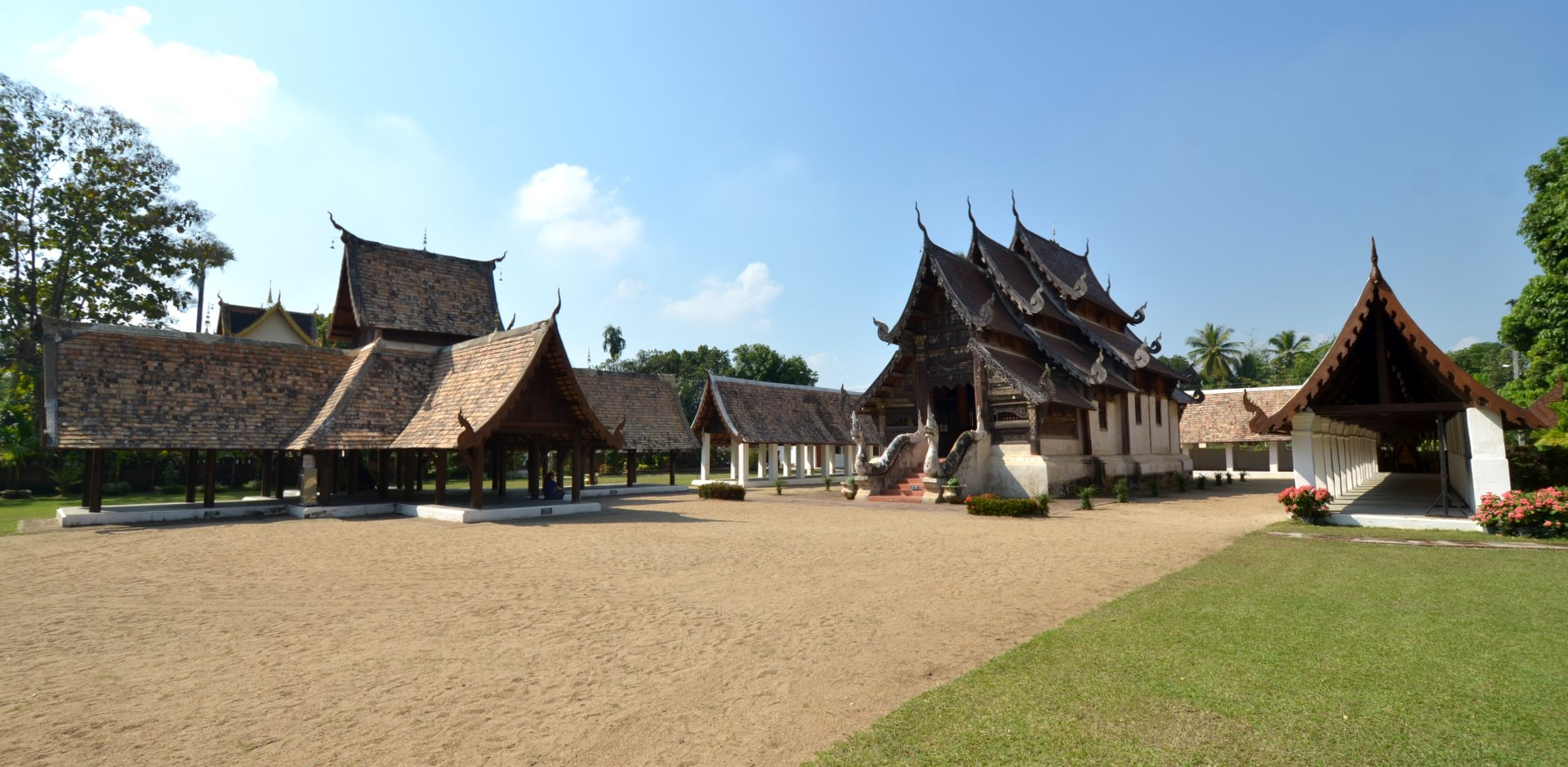 Wat Ton Kwaen in Amphoe Hang Dong. The last Wat in Thailand to have been built entirely in the Lanna style (1858 CE).